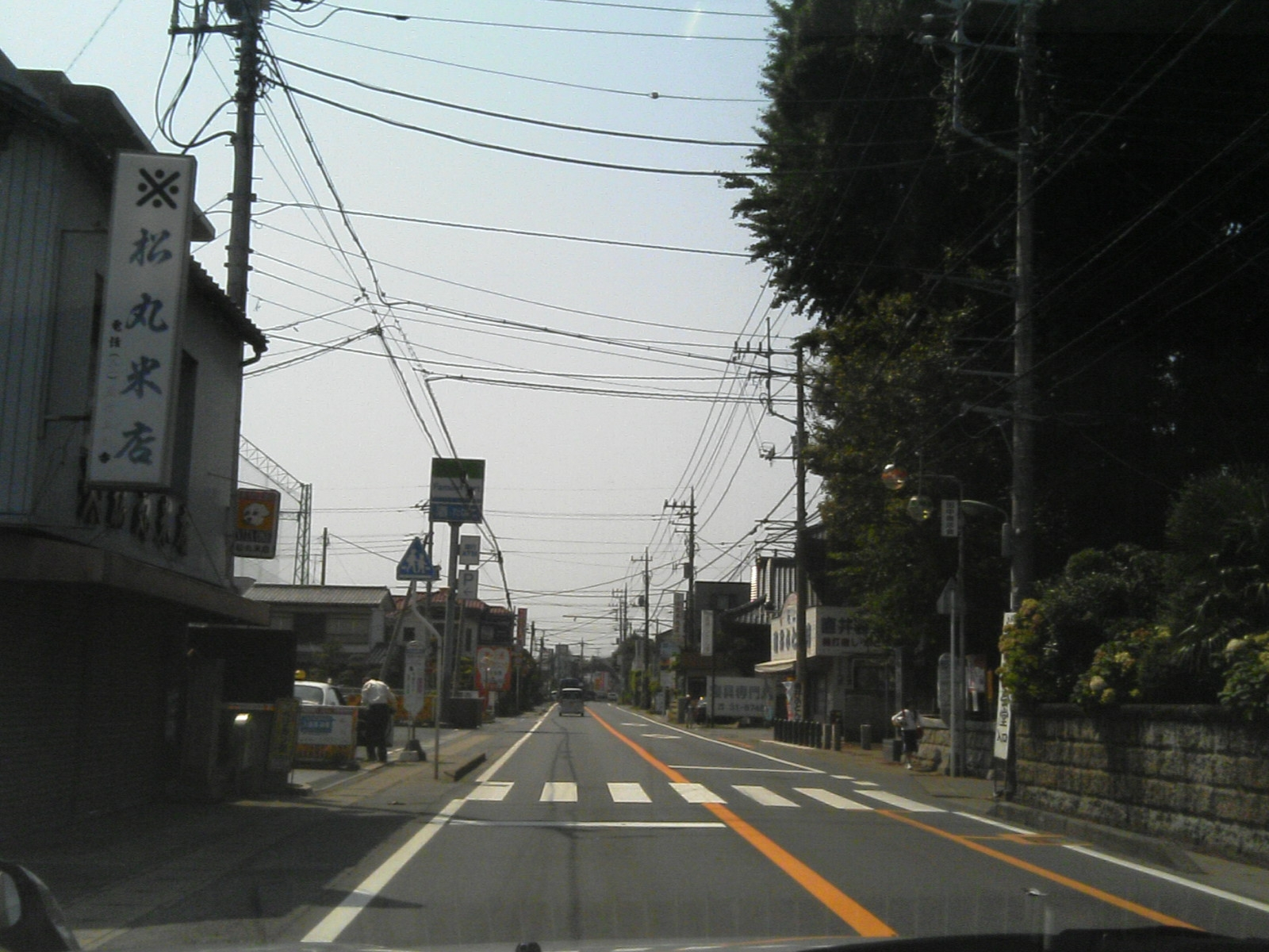 This is photo of Chiba-Route 7